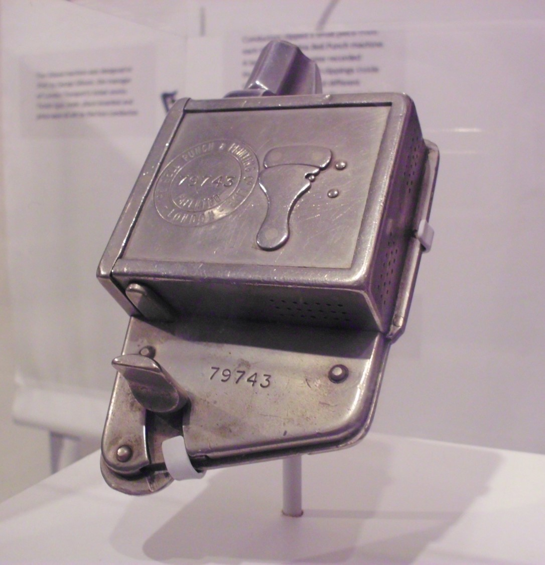 An ex-London Transport example of a ticket machine produced by the Bell Punch Company, London. Seen at the London Transport Museum's "Designology" gallery.